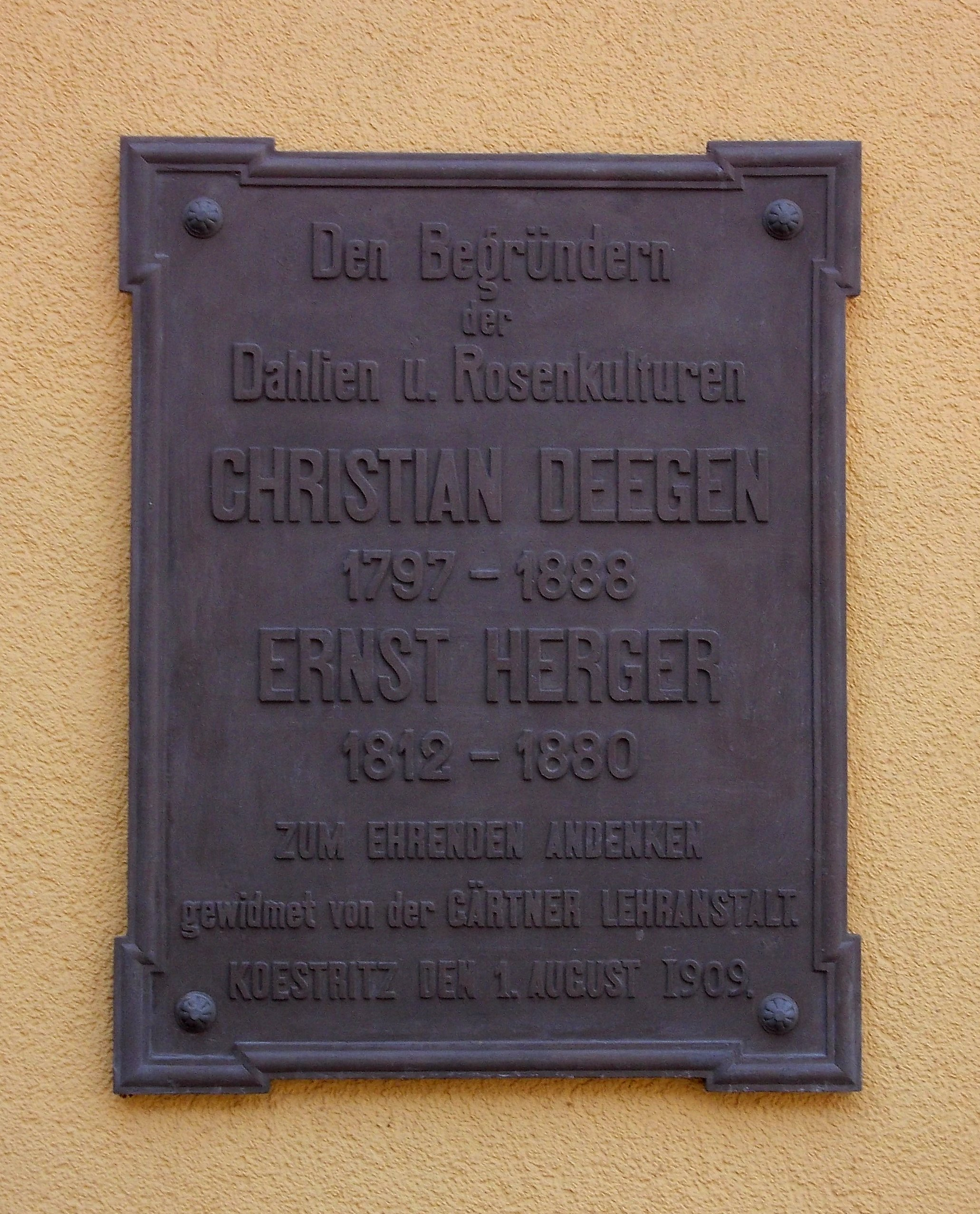 Plaque in memory of Christian Deegen and Ernst Herger, the founders of the cultivation of dahlias and roses in Bad Köstritz (Greiz district, Thuringia)